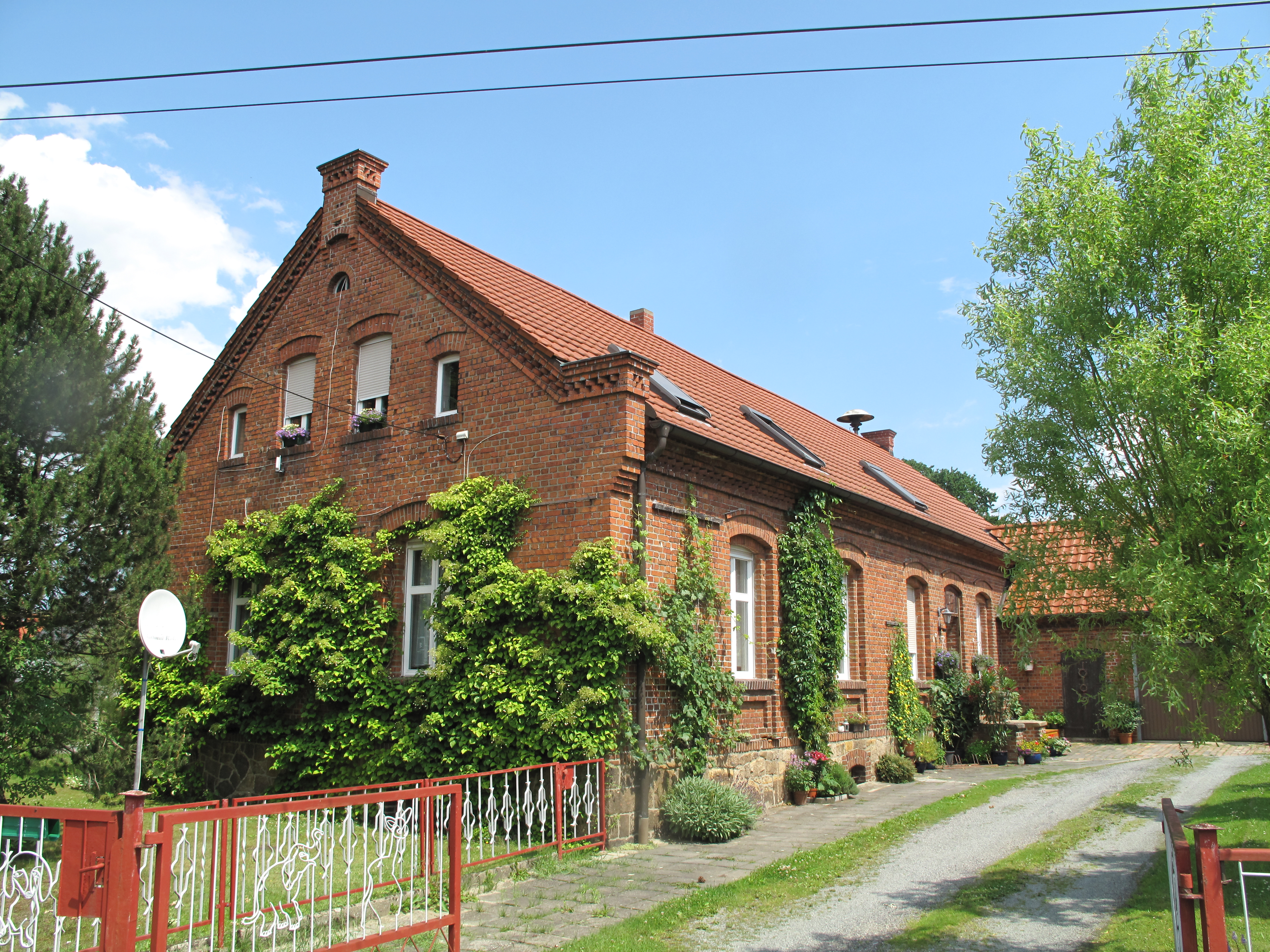 Building in brick construction; importance of history of construction and of village; built 1910 as a school building in Ödernitz